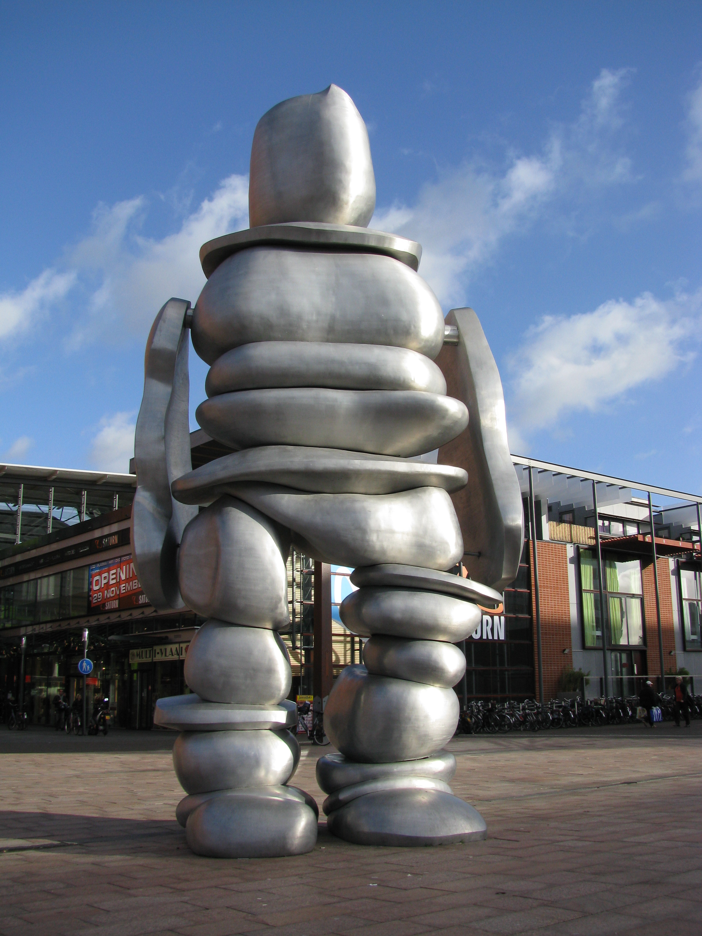 Statue in Hoofddorp, the Netherlands. The statue is called 'Little man from Hoofddorp'. It is 7 meters high (23,5 feet) and is made out of aluminium. The statue is by artist Tom Claassen.